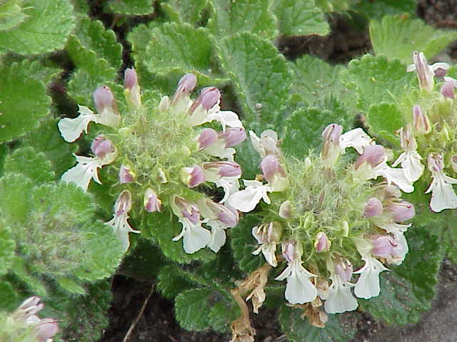 Species: Teucrium pyrenaicum Family: Labiatae Image No. 2